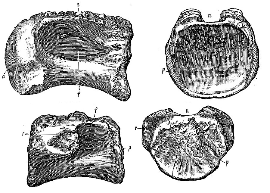 Dorsal and sacral vertebrae of Pleurocoelus nanus.